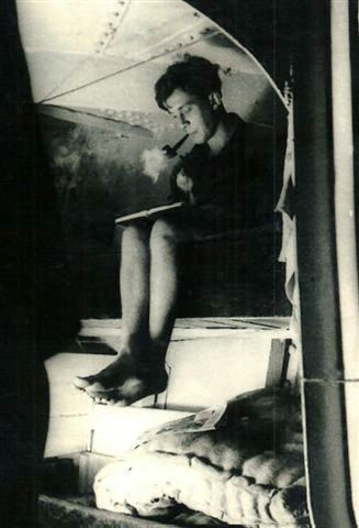 Klemperer as Cadet studying while sailing for shipmate commission.